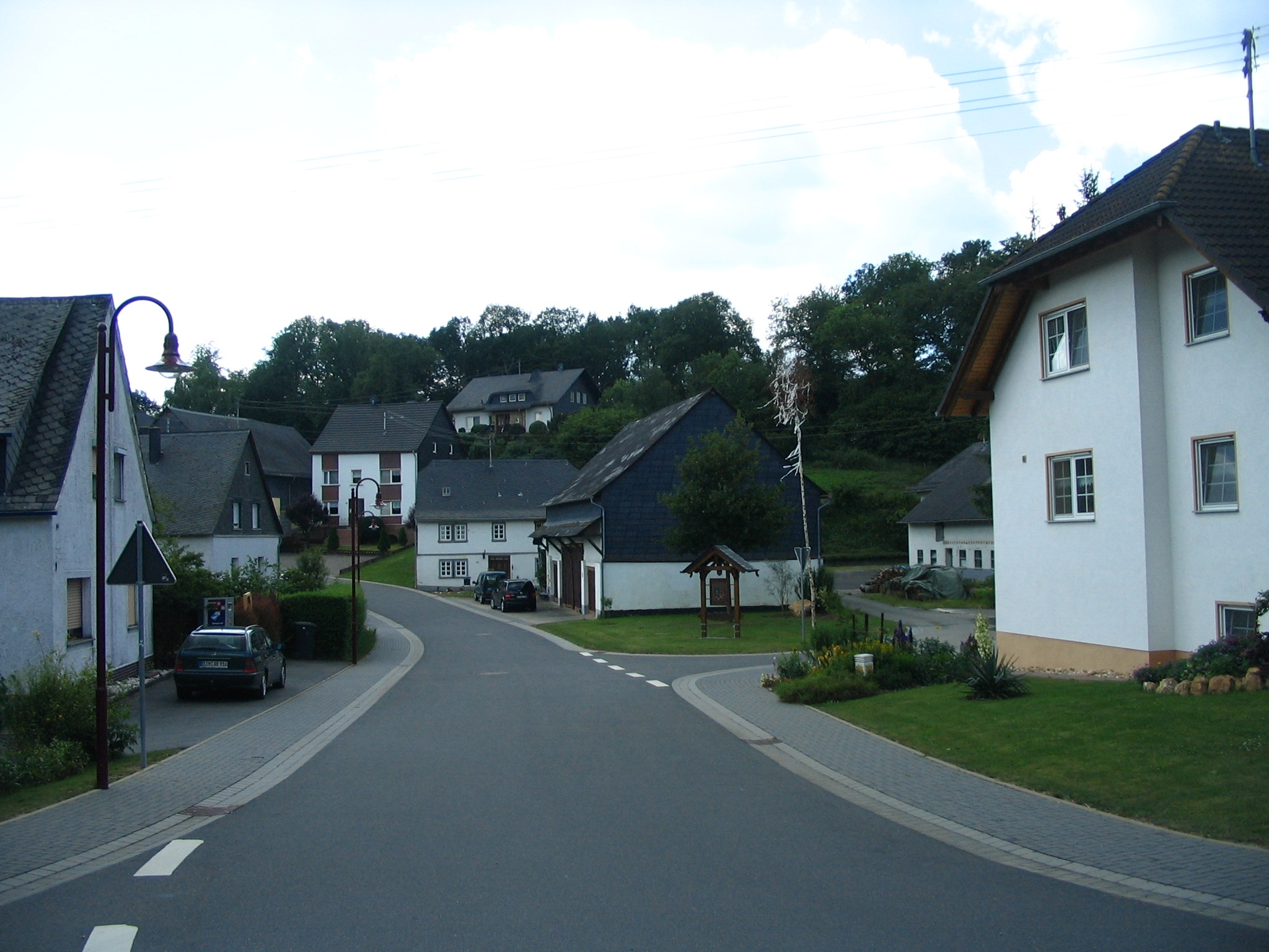 Sohrschied in the Hunsrueck region, Germany